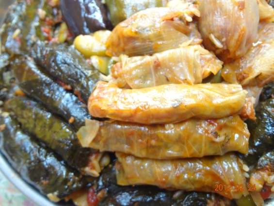 Mosul Dolma